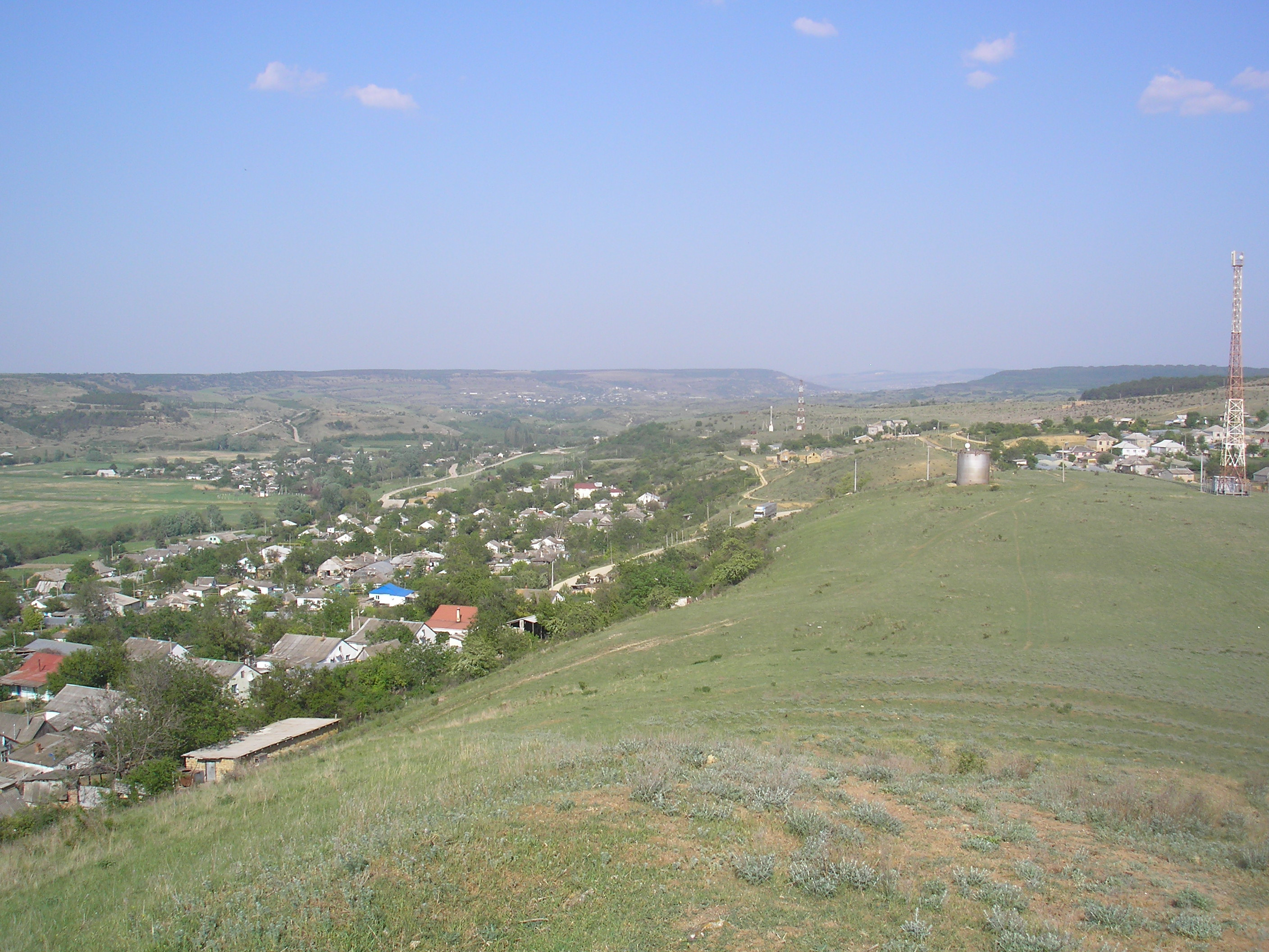 Village Tenistoe, Bakhchisaray district, Crimea